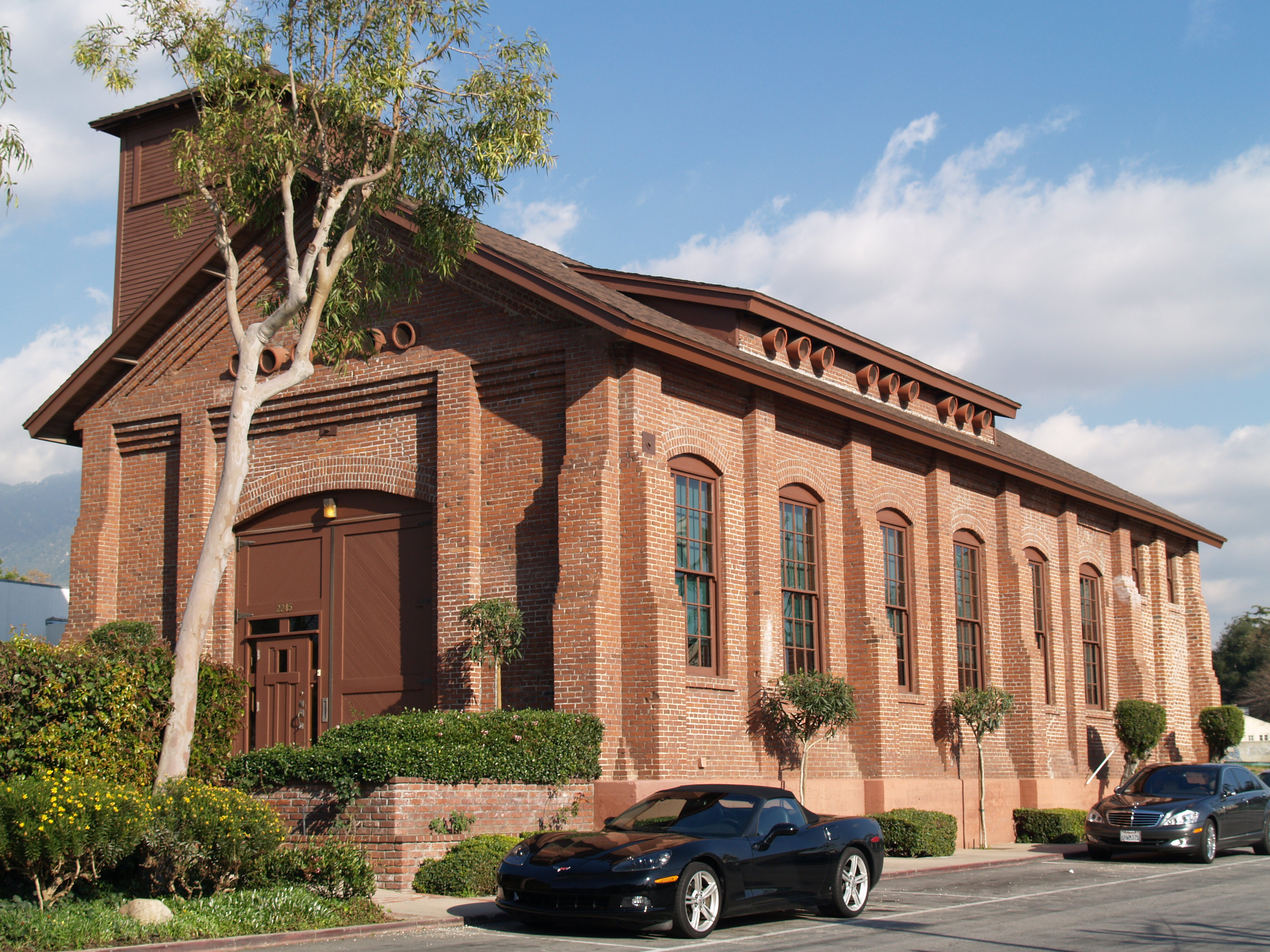 Pacific Electric Railway Company Substation Number 8, Altadena, California, USA